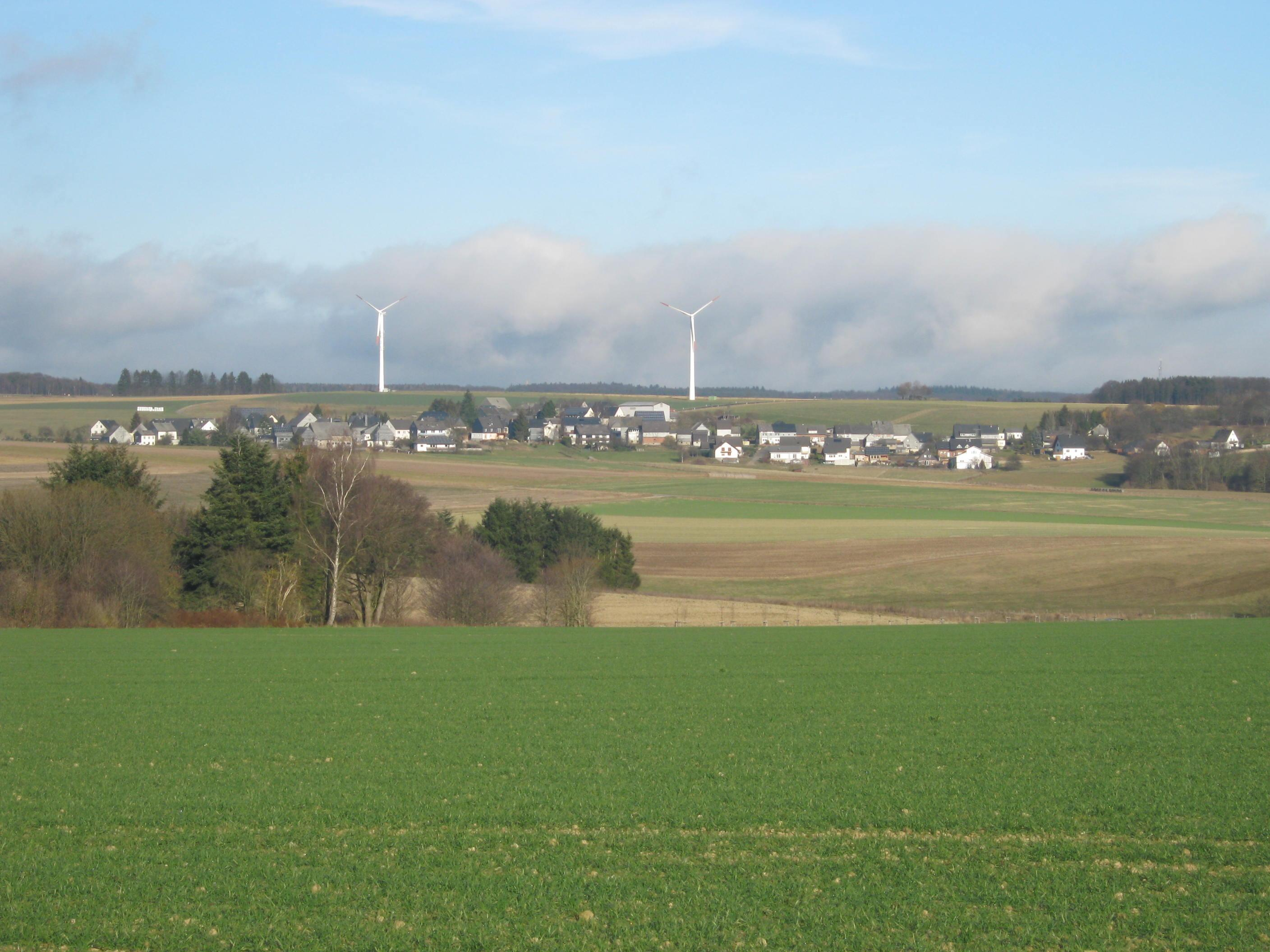 Wahlenau in the Hunsrück landscape, Germany